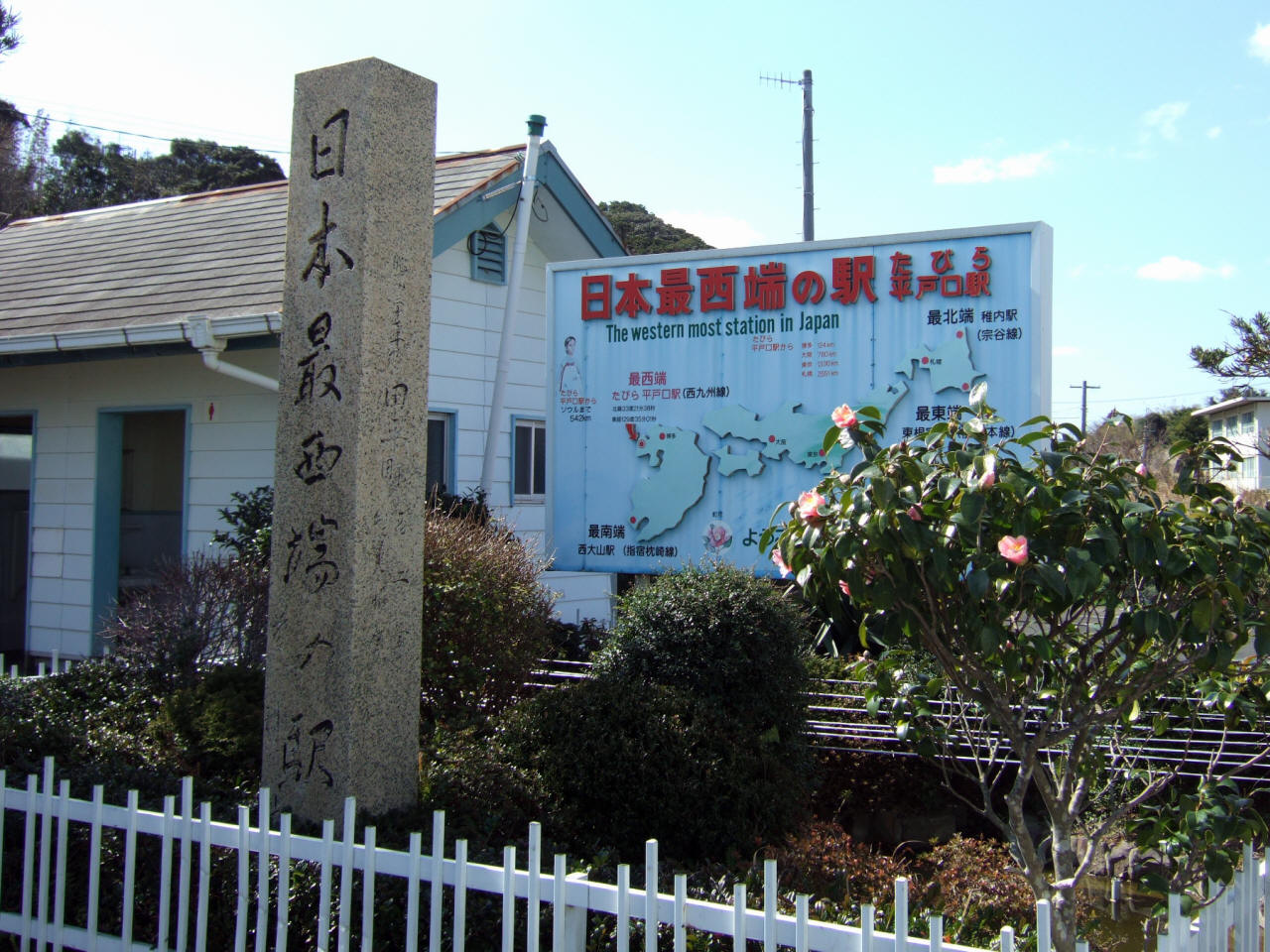 Monument of "The Westernmost Station in Japan" at Tabira-Hiradoguchi Station